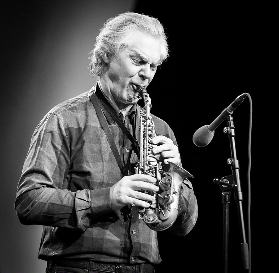 Jan Garbarek Group featuring Trilok Gurtu at the main stage of Oslo Opera House. The concert was part of the Oslo Jazz Festival in Norway and took place on 14. August 2016. Lineup:Jan Garbarek (saxophone)Rainer Brüninghaus (keyboard)Yuri Daniel (bass)Trilok Gurtu (percussion)